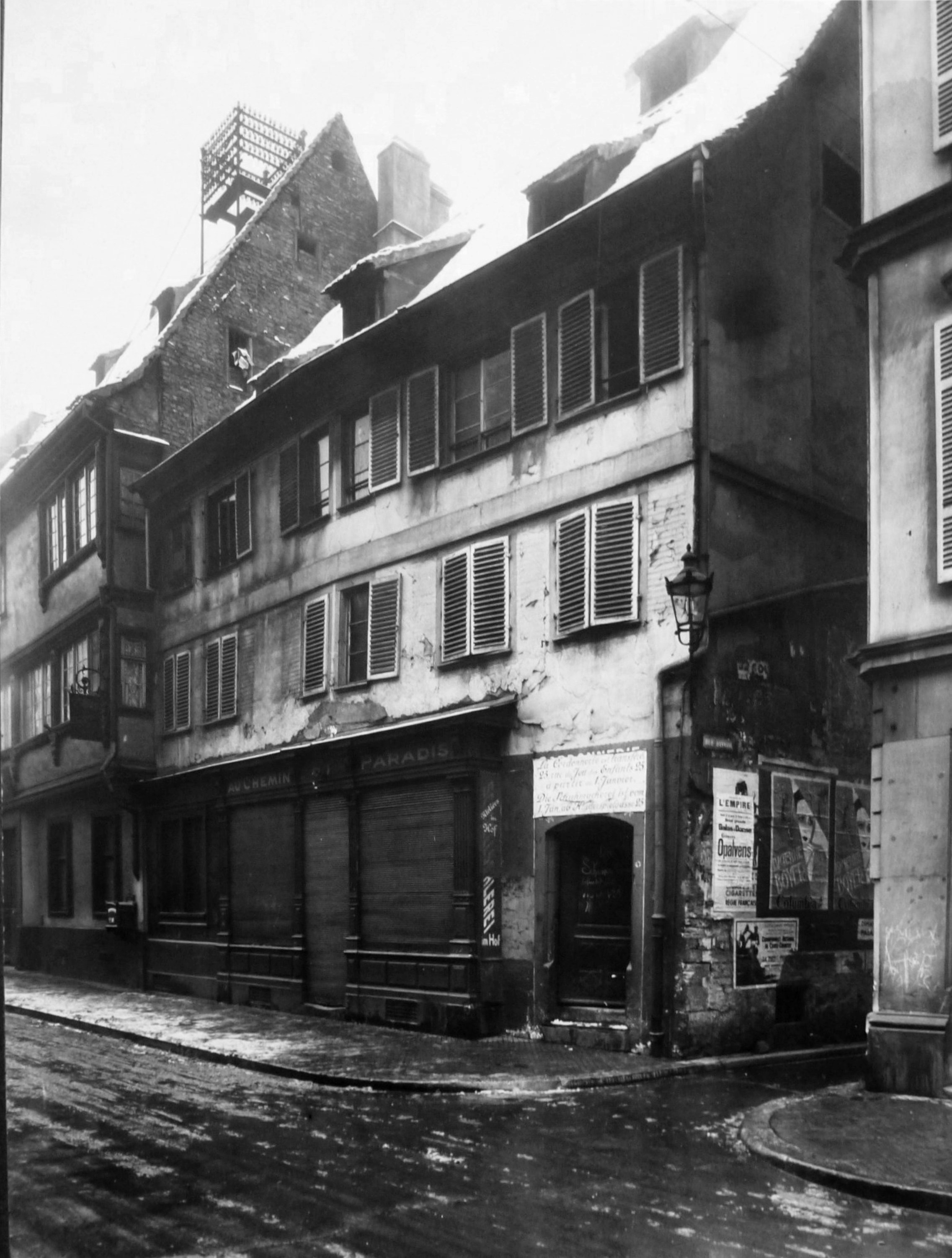 Birthplace of actress Amélie Diéterle, born at 44 rue du Jeu des Enfants (Kinderspielgasse) in Strasbourg, on 20 February 1871 and daughter of Dorothée Catherine Diéterle (Dorothee Katharina Dieterle), German waitress. The building will be destroyed in March-April 1933.Amélie Diéterle is a French actress born in Strasbourg on 20 February 1871 and died in Cannes on 20 January 1941. She was legitimated in Paris in 1892 by Captain Louis Laurent, Knight of the Legion of Honor. Amélie Diéterle married in Vallauris on 16 June 1930 with André Simon (1877-1965). Amélie Diéterle plays mainly at the Théâtre des Variétés in Paris during the Belle Époque.